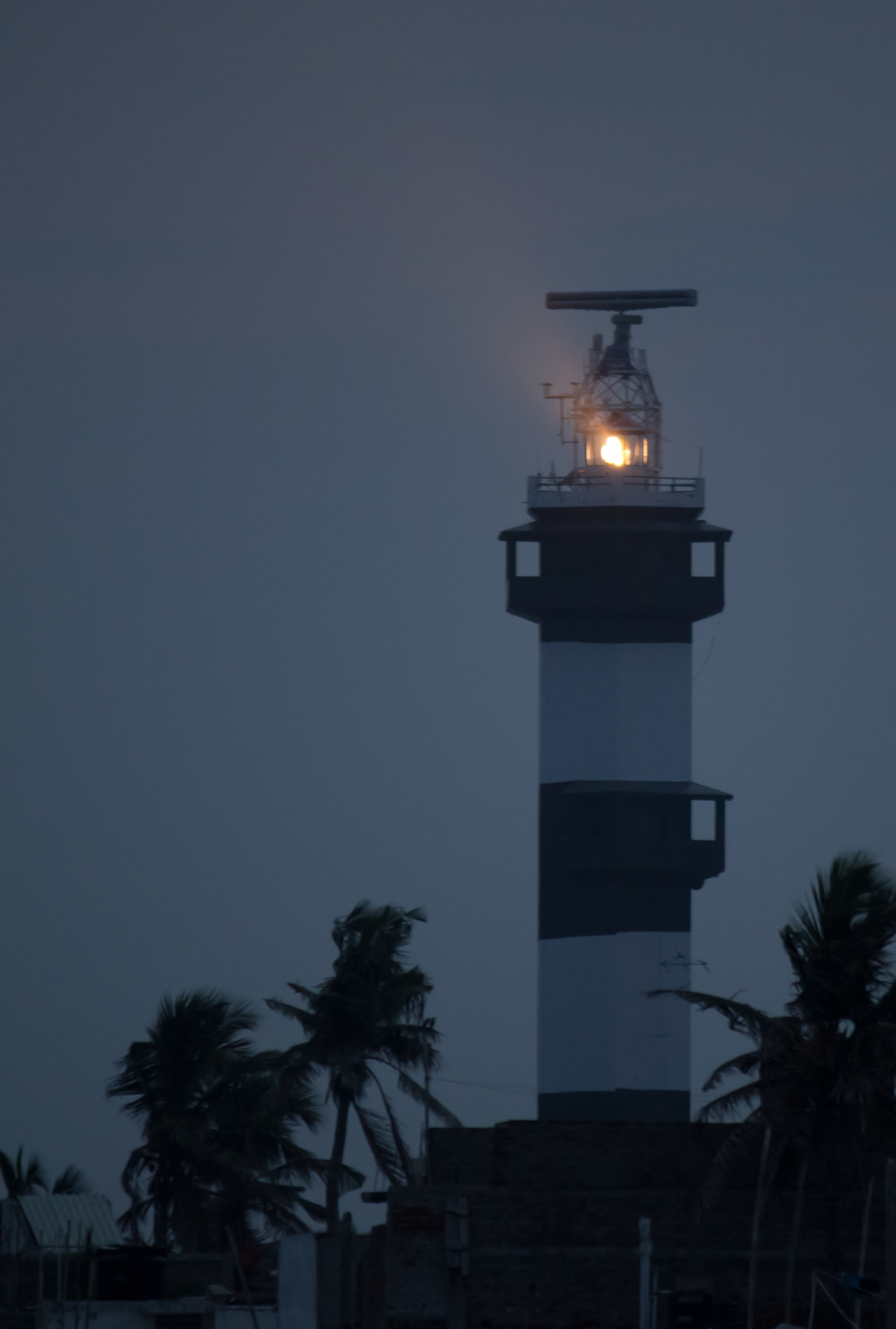 The new lighthouse at Pondichery